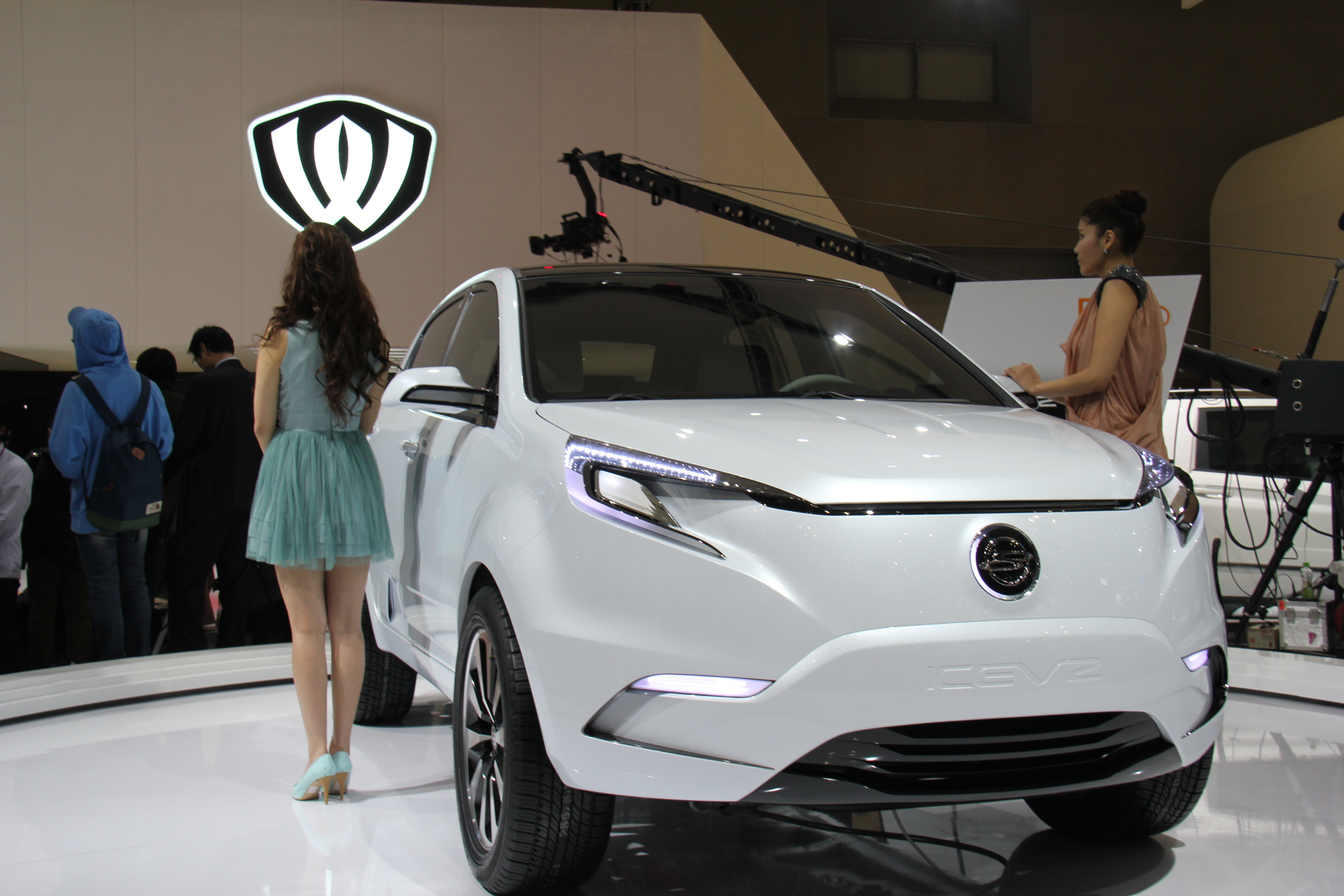 The 2011 Seoul Motor Show was held from April 1 to 10 at the Korea International Exhibition Center (KINTEX) in the city of Goyang. Under the theme 'Evolution, Green Revolution on Wheels,' the show, which is sponsored by the Ministry of Land, Transport and Maritime Affairs and the Ministry of Knowledge Economy, features 139 companies from eight countries.